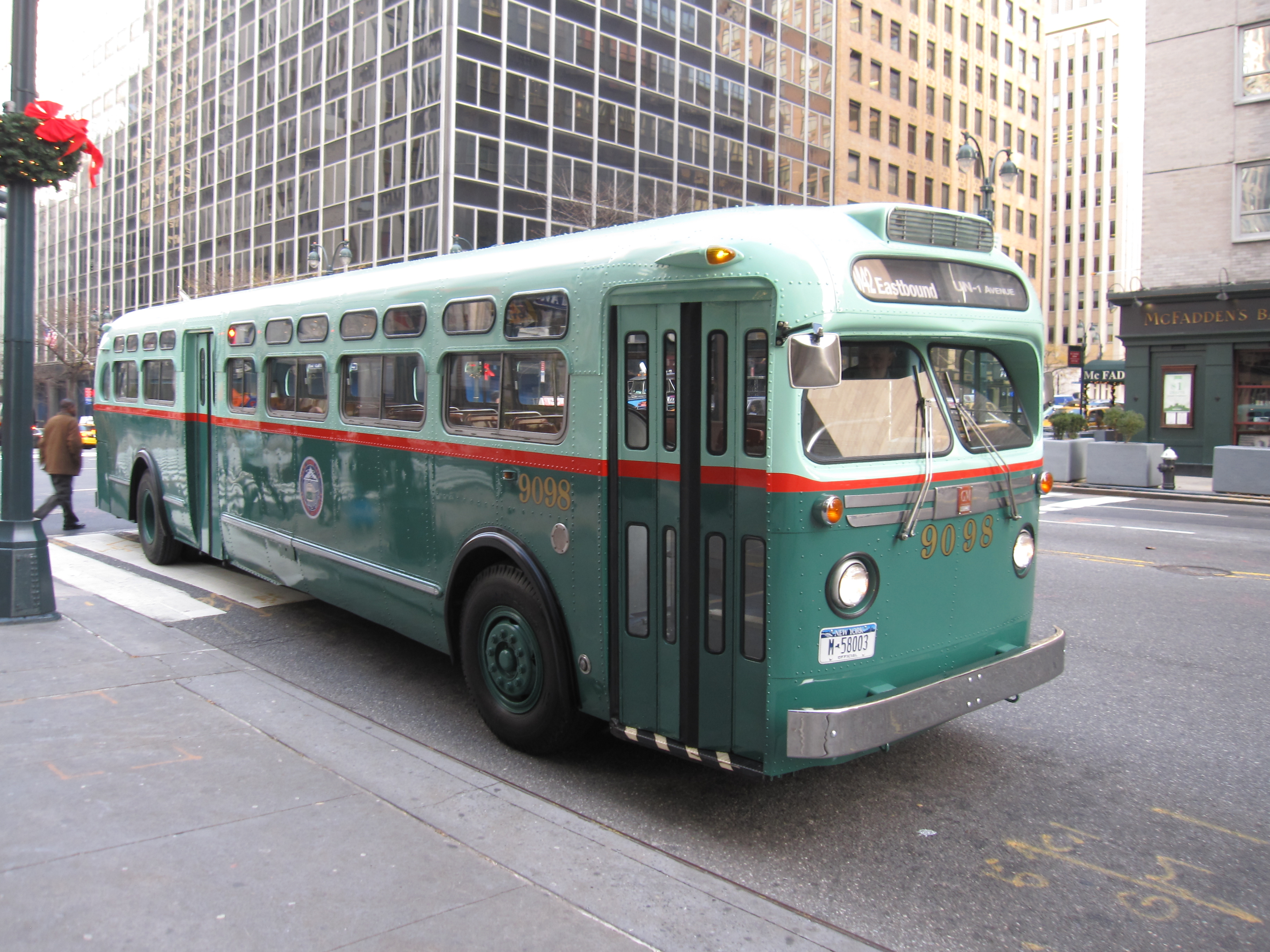 New York City MTA General Motors TDH-5106 (#9098) on 42nd Street, taken out specially for the Christmas season.